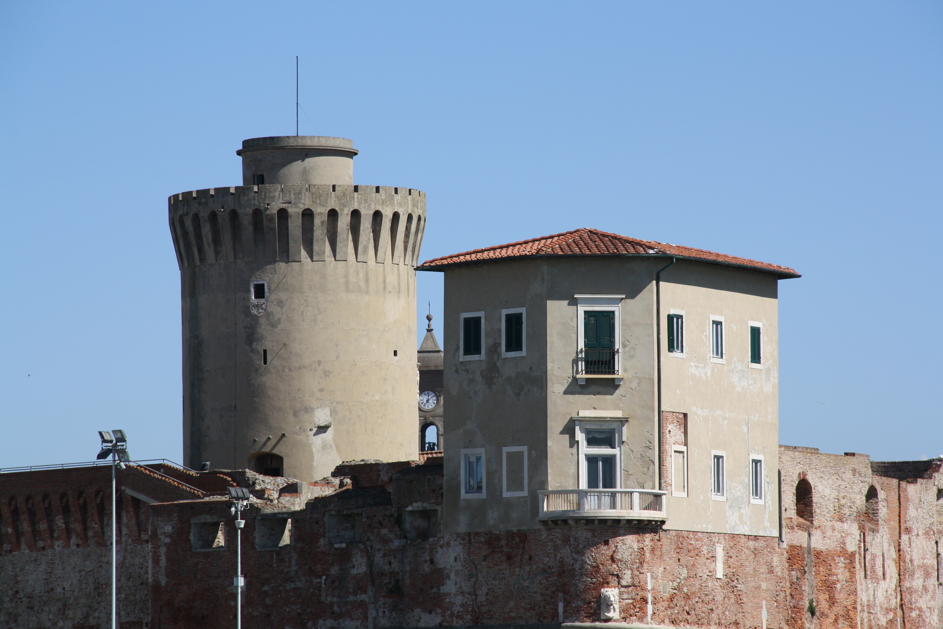 Italy, Livorno, Fortezza Vecchia. The bastion named Canaviglia at the entrance of Vecchia Darsena and Ferdinando I de' Medici palace and by side the Mastio di Matilde.